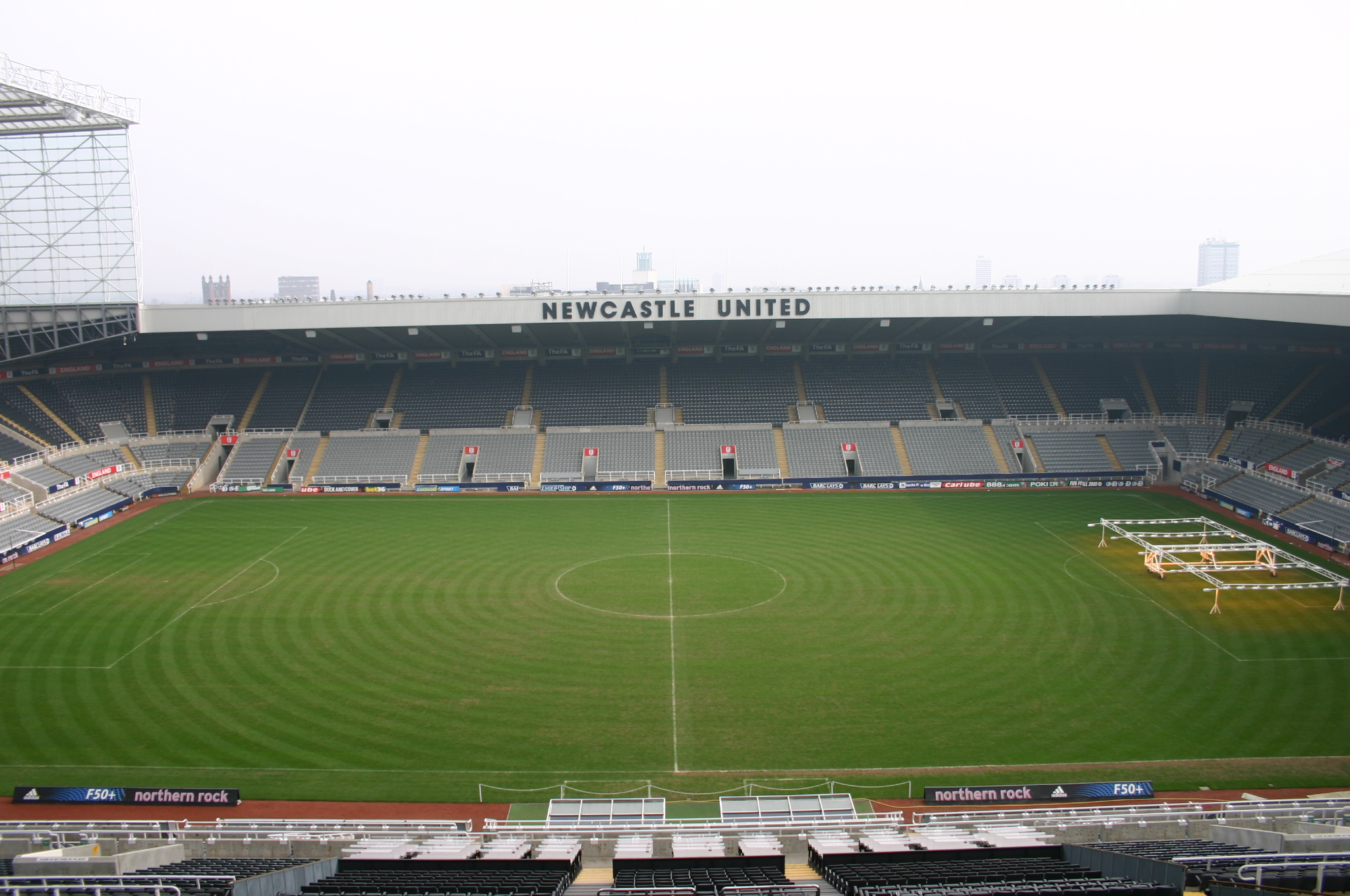 St James' Football Stadium - Newcastle